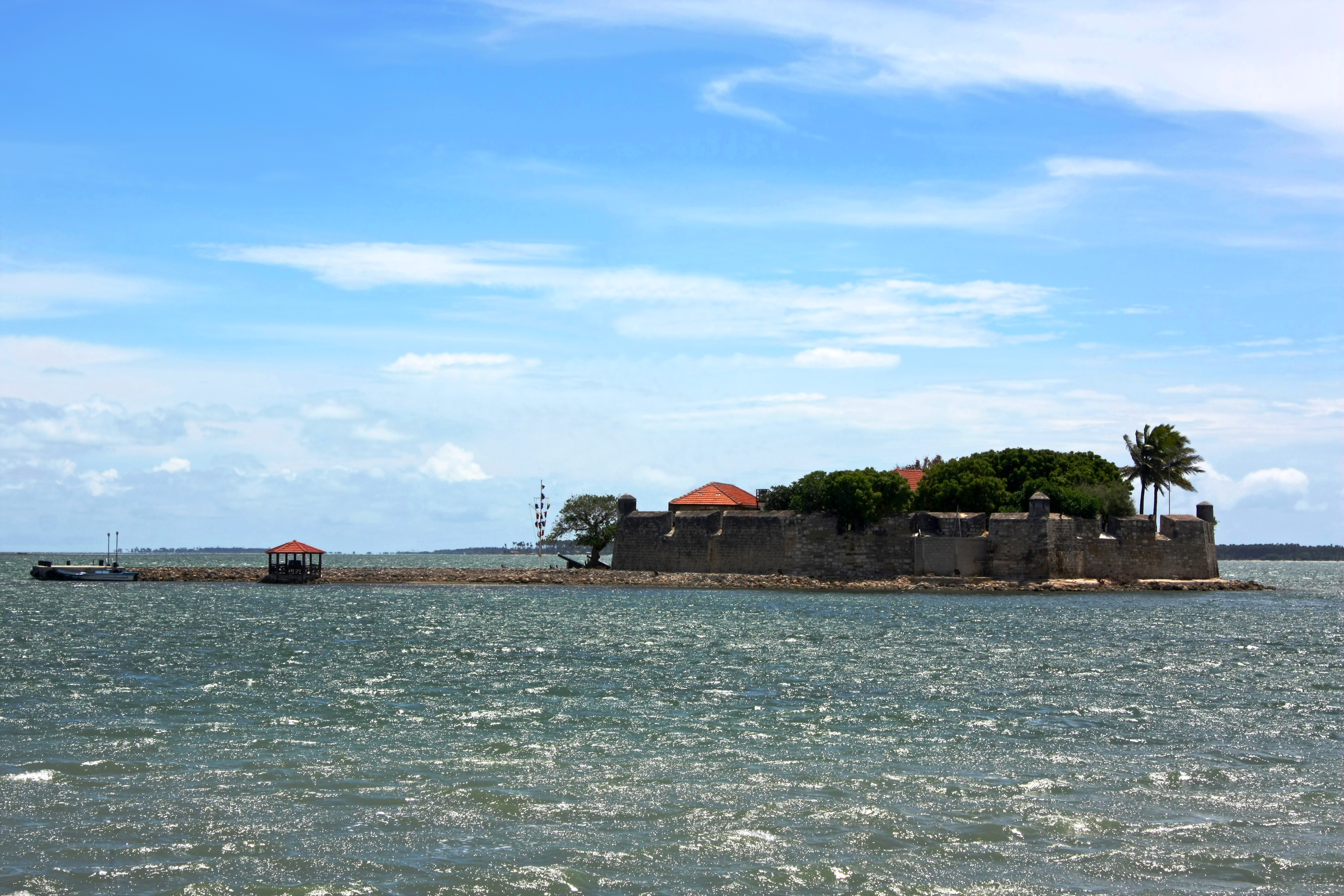 Hammenheil fort